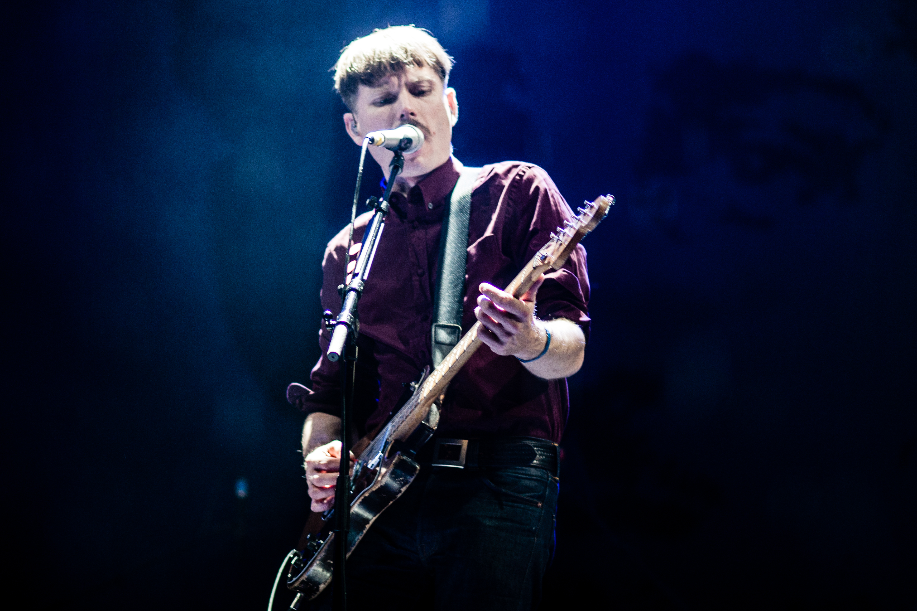 Follow me on facebook Twitter : @didyPhotography All the photographies I've made are now under CC0 (Creative Commons Zero) CC0 - learn more To the extent possible under law, Eddy BERTHIER has waived all copyright and related or neighboring rights to Franz Ferdinand @ Dour 2012. This work is published from: France.